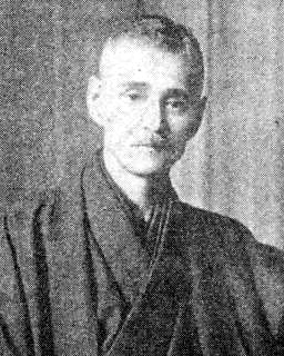 a writer from Japan,江見水蔭 （Suiin Emi）